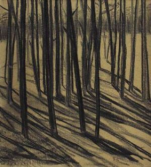 Trees Jozsef Arpad Murmann